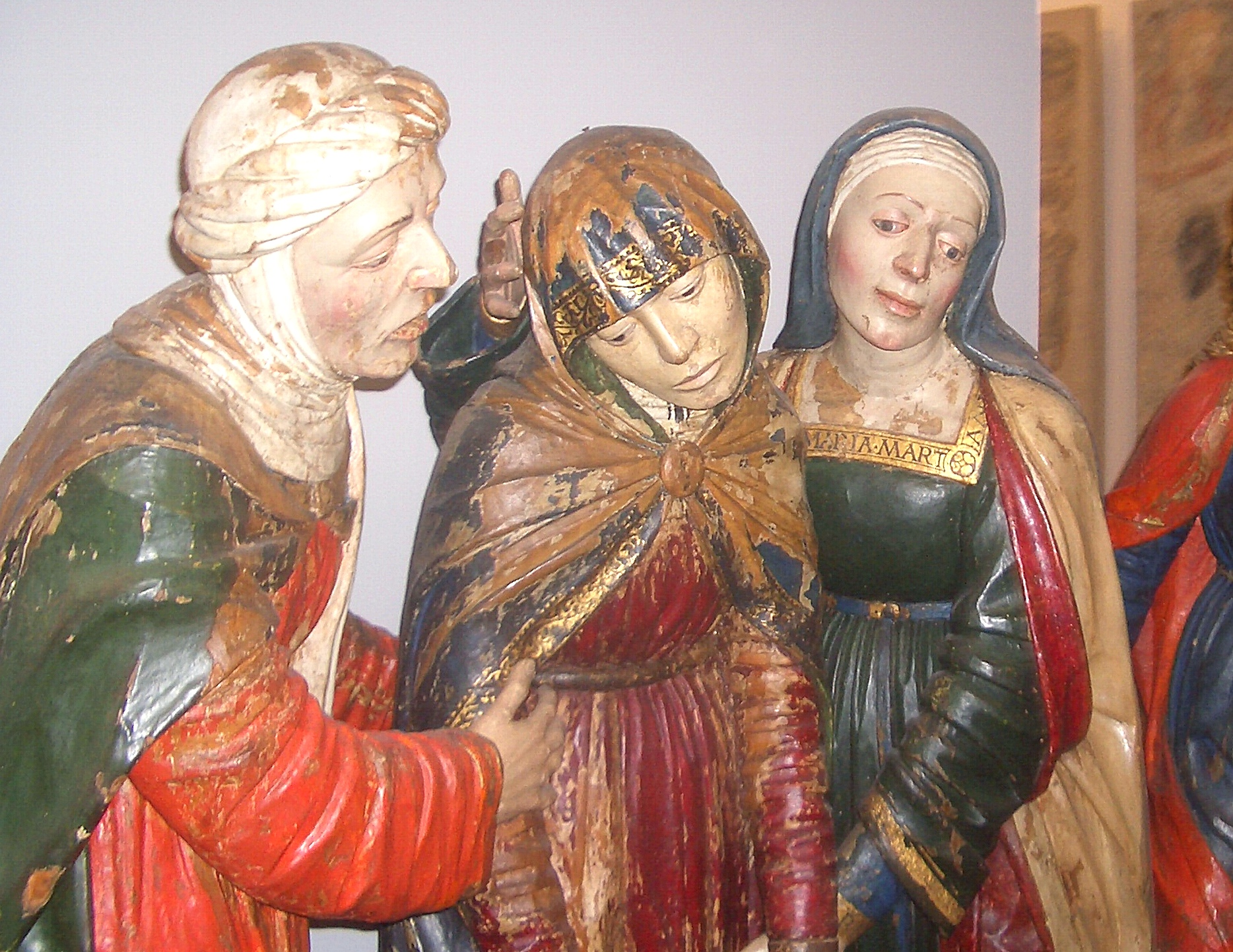 Giovanni Pietro e Giovanni Ambrogio De Donati, Lamentation of dead Christ (detail), wood, 1486-93, Varallo Sesia, Pinacoteca civica